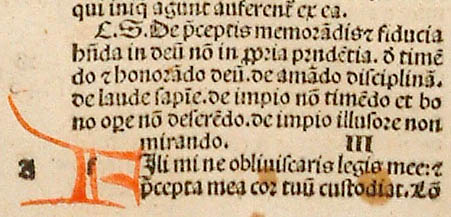 Photograph of a page from a rare Blackletter bible (1497) printed in Strasbourg by Johann Grüninger.[1] The coloured chapter initials were handwritten after printing. The original is owned by the submitter. You see Chapter III of the Book of Proverbs ("Proverbs of Solomon"): fili mi ne obliviscaris legis meae et praecepta mea custodiat cor tuum ([2]) See also: Overview of the whole page.